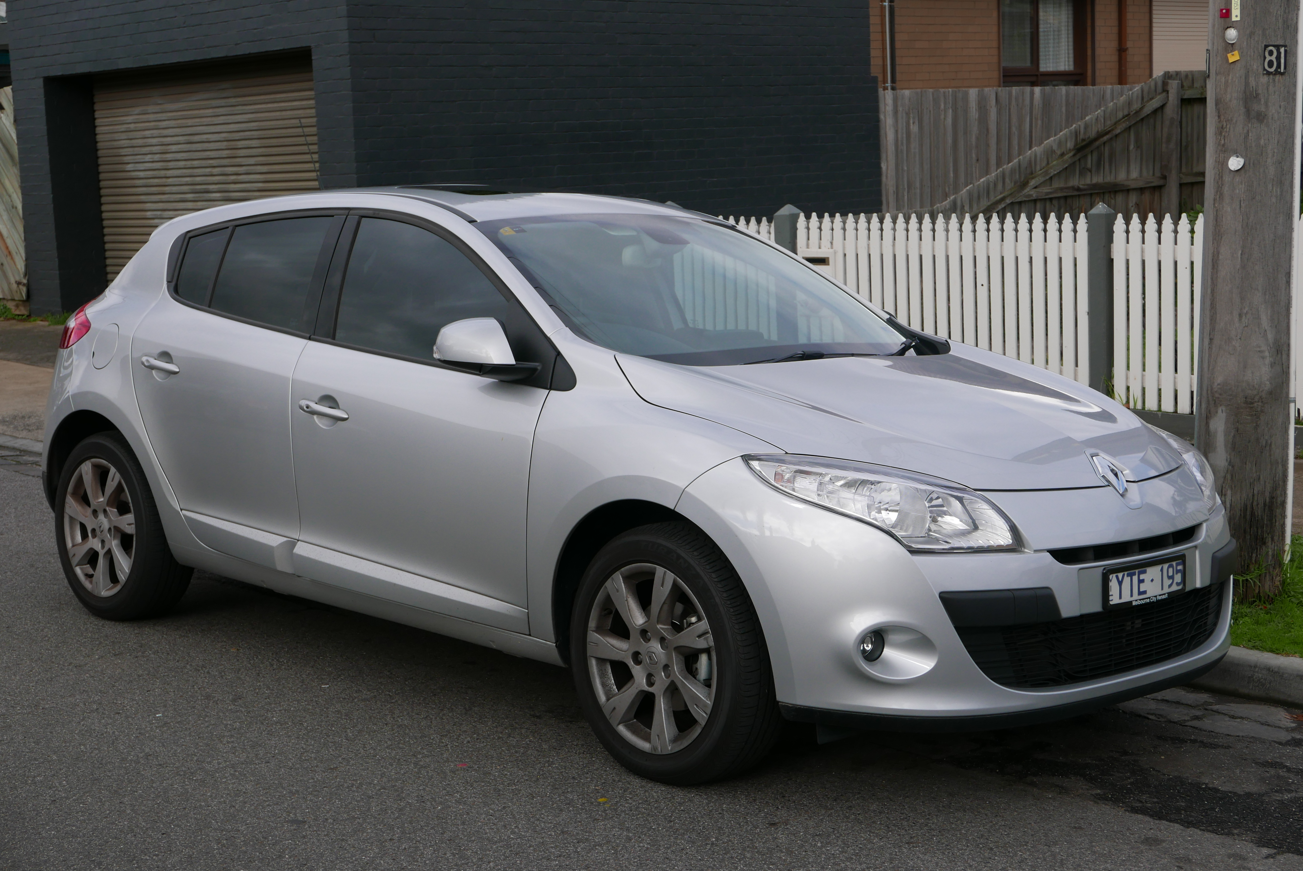 2011 Renault Mégane (B32) Privilege hatchback. Photographed in Thornbury, Victoria, Australia. Vehicle registration enquiry results Jurisdiction Victoria Registration YTE195 Chassis code VF1BZAC0TB0665774 Engine code M4R751N120582 Compliance date 2011-10 Year of manufacture 2011